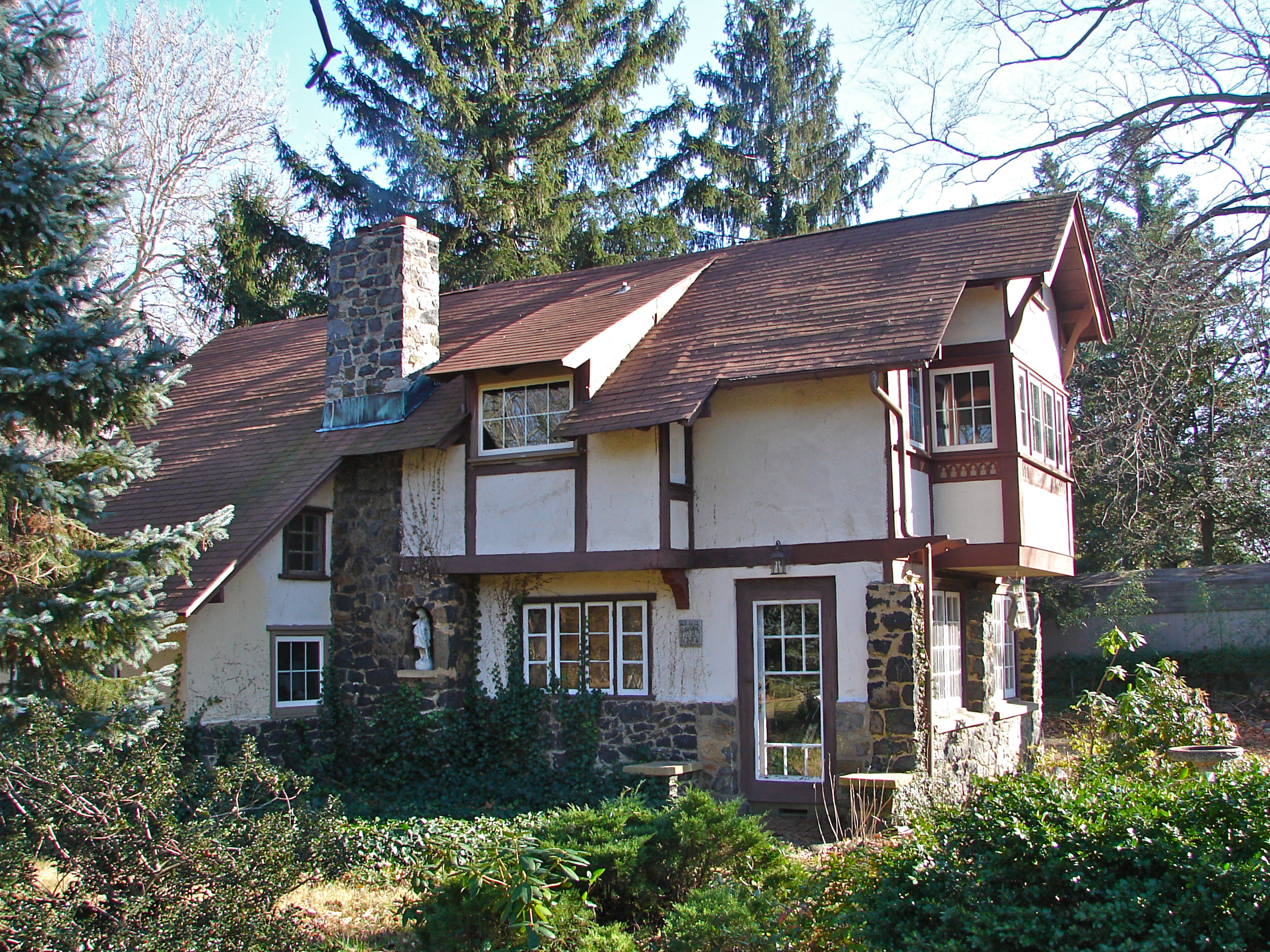 House in Arden, Delaware part of Ardens Historic District, on the NRHP since May 30, 2003, near Orleans Rd. at Harvey Rd., Arden, Delaware. Or part of Village of Arden, on the NRHP since February 6, 1973, located 6 miles north of Wilmington between Marsh Rd., Naaman's Creek, and Ardentown , Arden, Delaware. (These clearly overlap) This house designed by Will Price, known as the "Rest Cottage"